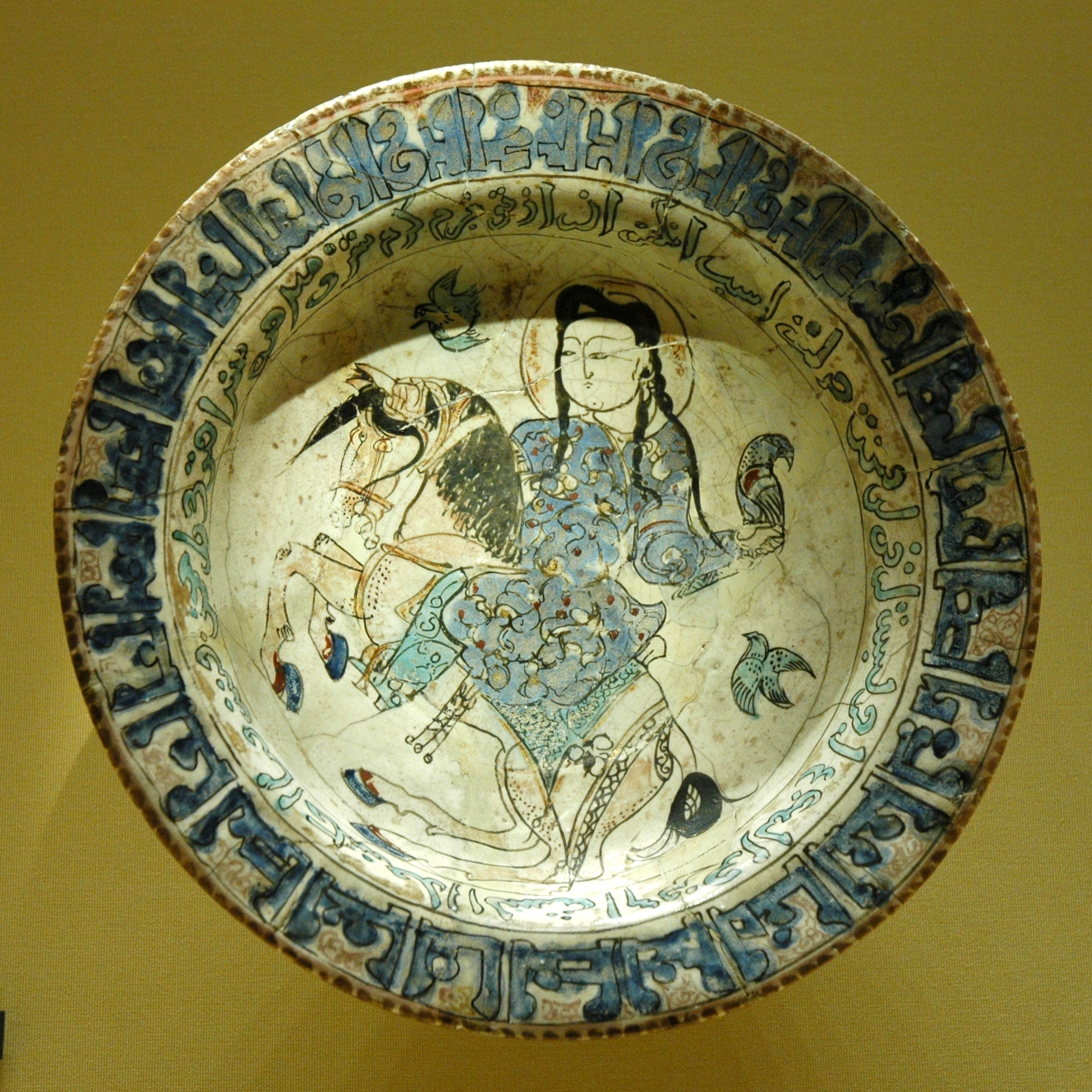 Cup with hawker riding. Earthenware with haftrang and gilded decoration and lustre decoration, overglaze plainted. Iran, early 13th century.